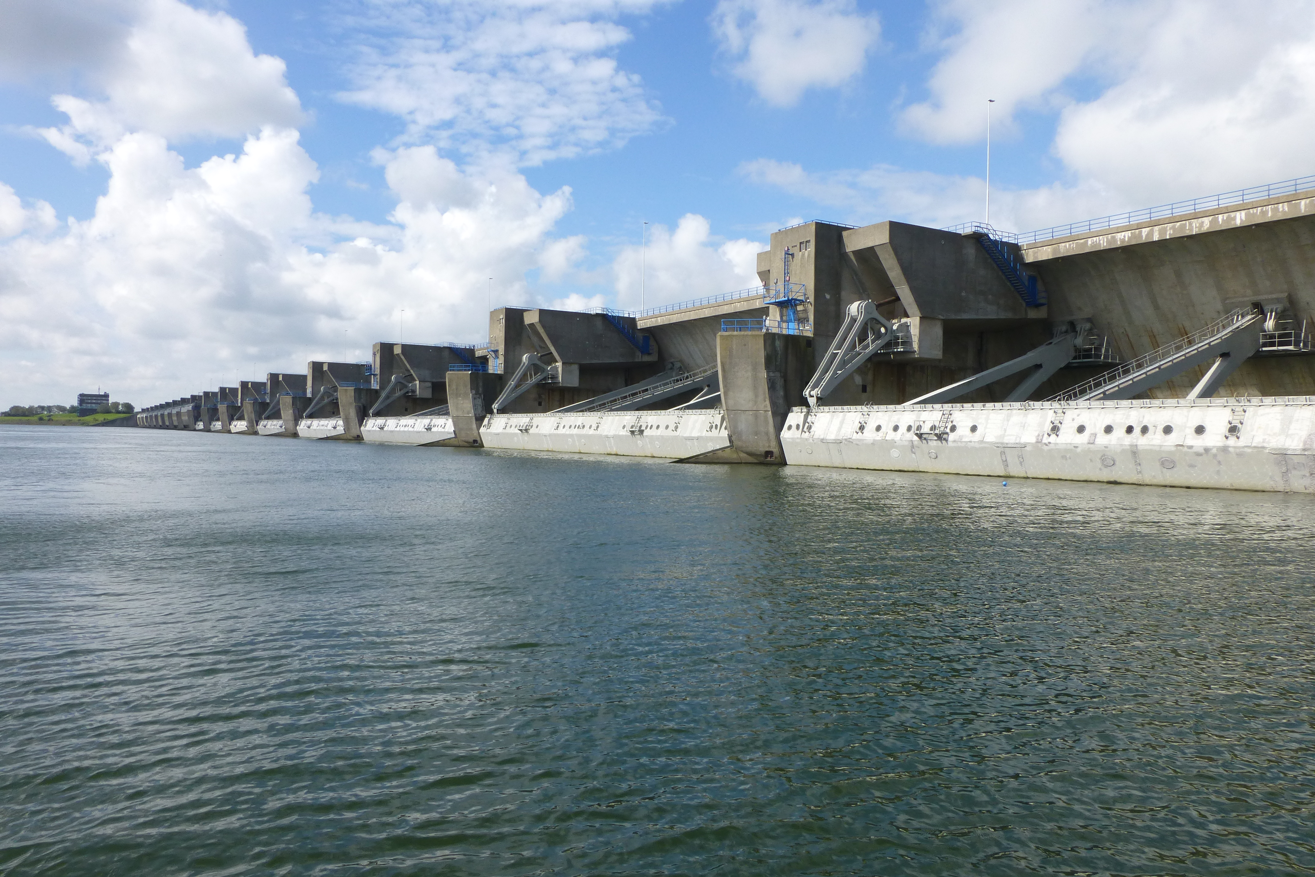 Dewatering sluice in the Haringvliet, the Netherlands